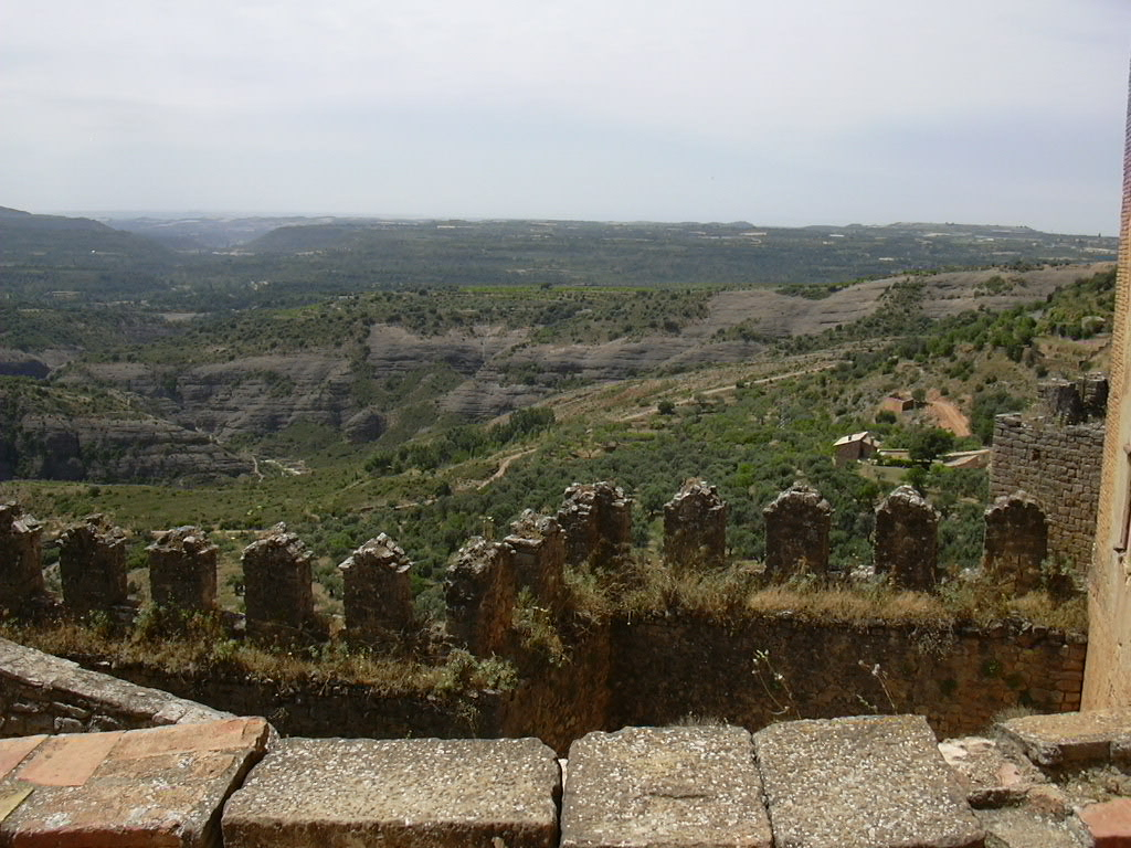 Alquézar - view from the colegiate church - valley of the Vero river